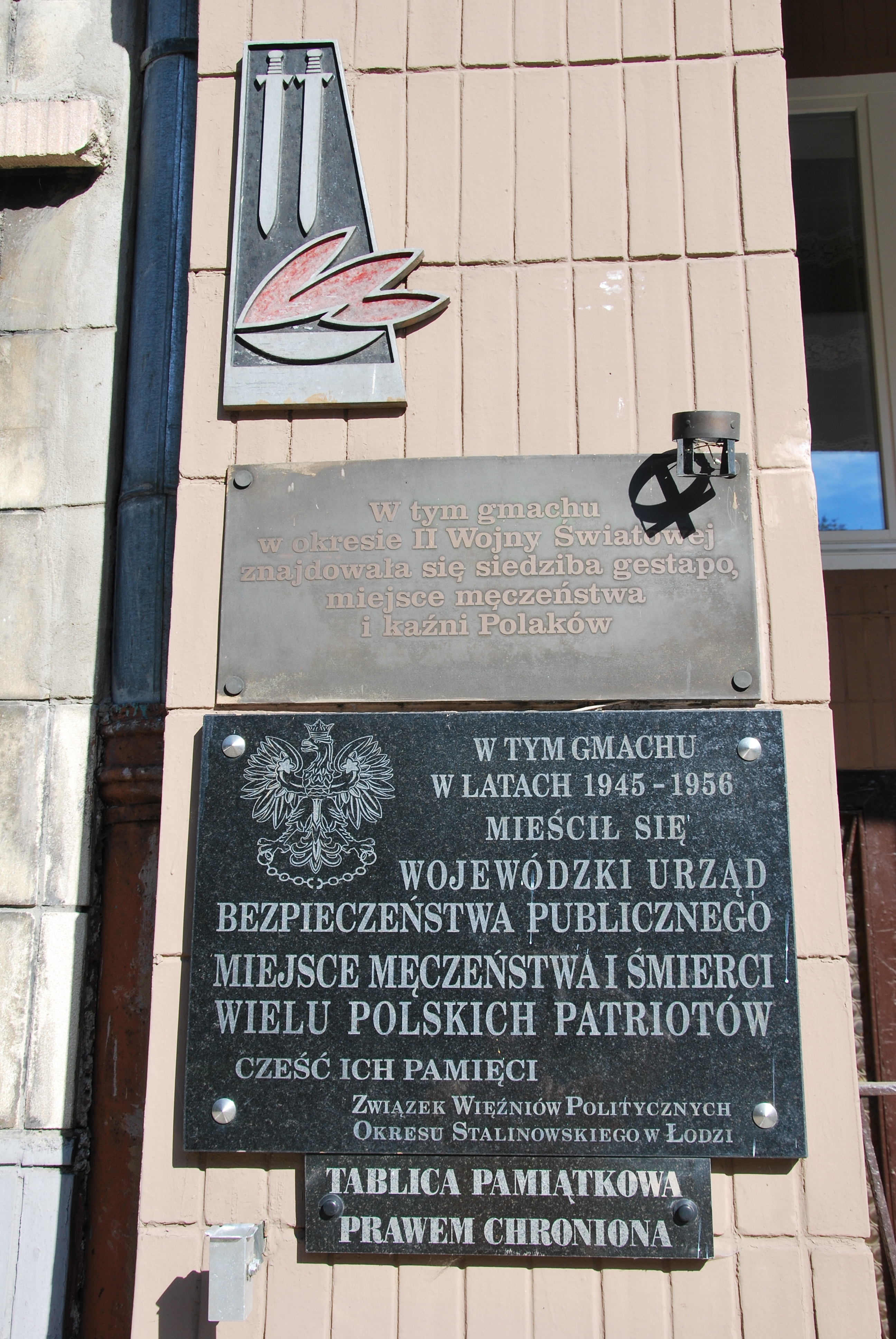 Plaque on former gestapo and communist secret police building, Łódź 7 Anstadta Street